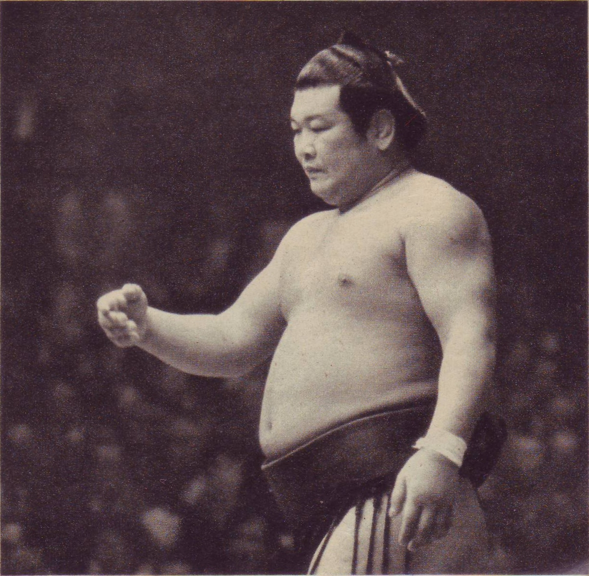 Kotogahama Sadao. taken in 1959, or before that.